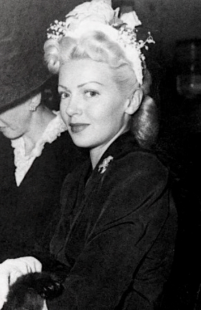 Lana Turner in court filing for legal separation from second husband, Stephen Crane.